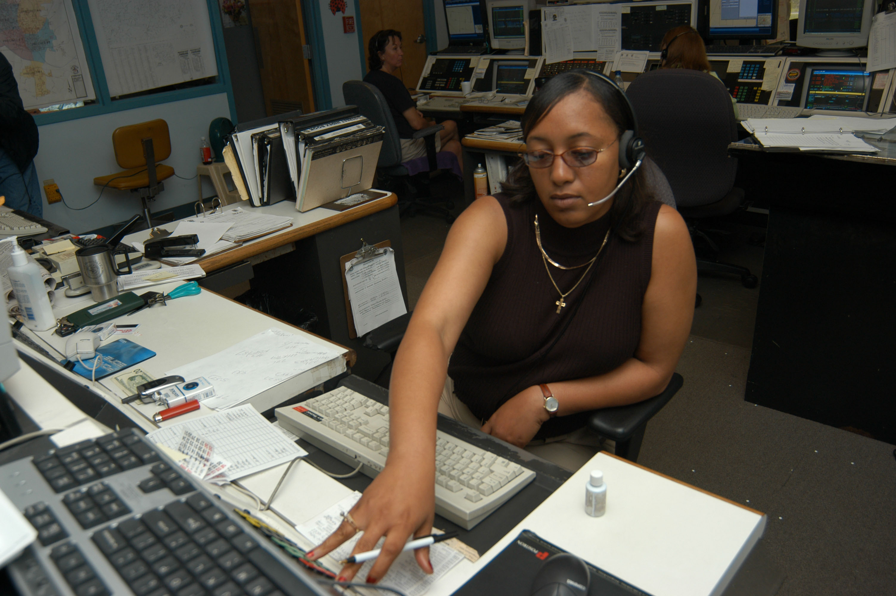 Jackson, TN, May 14, 2003. An operator takes a call at the Jackson 911 Dispatch Center. Photo by Mark Wolfe/FEMA News photo.